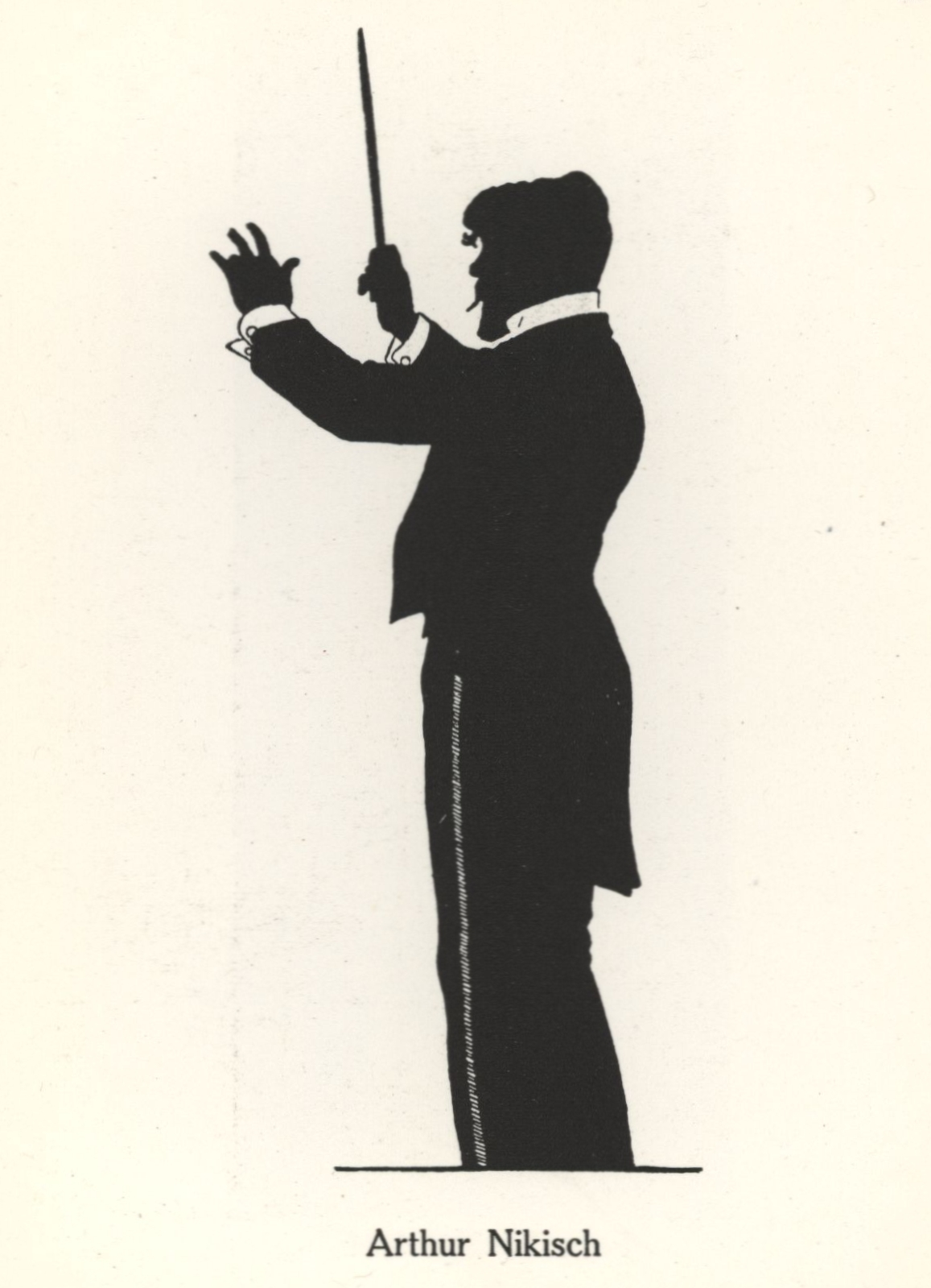 Arthur Nikisch (1855–1921), Hungarian conductor; silhouette by Hans Schließmann